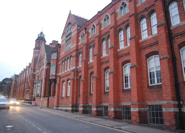 Picture of the Chatham House School building, Chatham Street, Ramsgate, Kent.